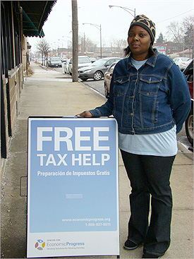 A young woman stands next to a sign advertising "Free Tax Help" from the Center for Economic Progress.